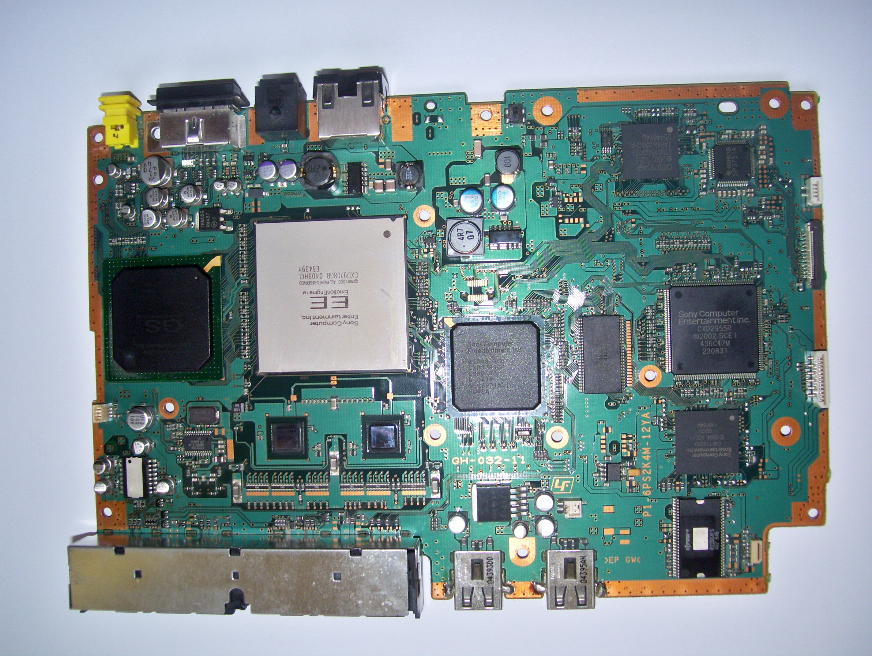 Top of a PlayStation 2 slim's (SCPH-70004) motherboard (GH-032-11)